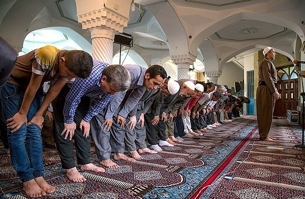 Jameh Mosque of Sanandaj, 5 Ramadan 1437. see full gallery